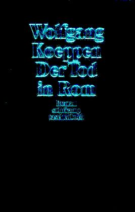 Book cover of the pocket book edition of Wolfgang Koeppen "Der Tod in Rom" (first published 1954)